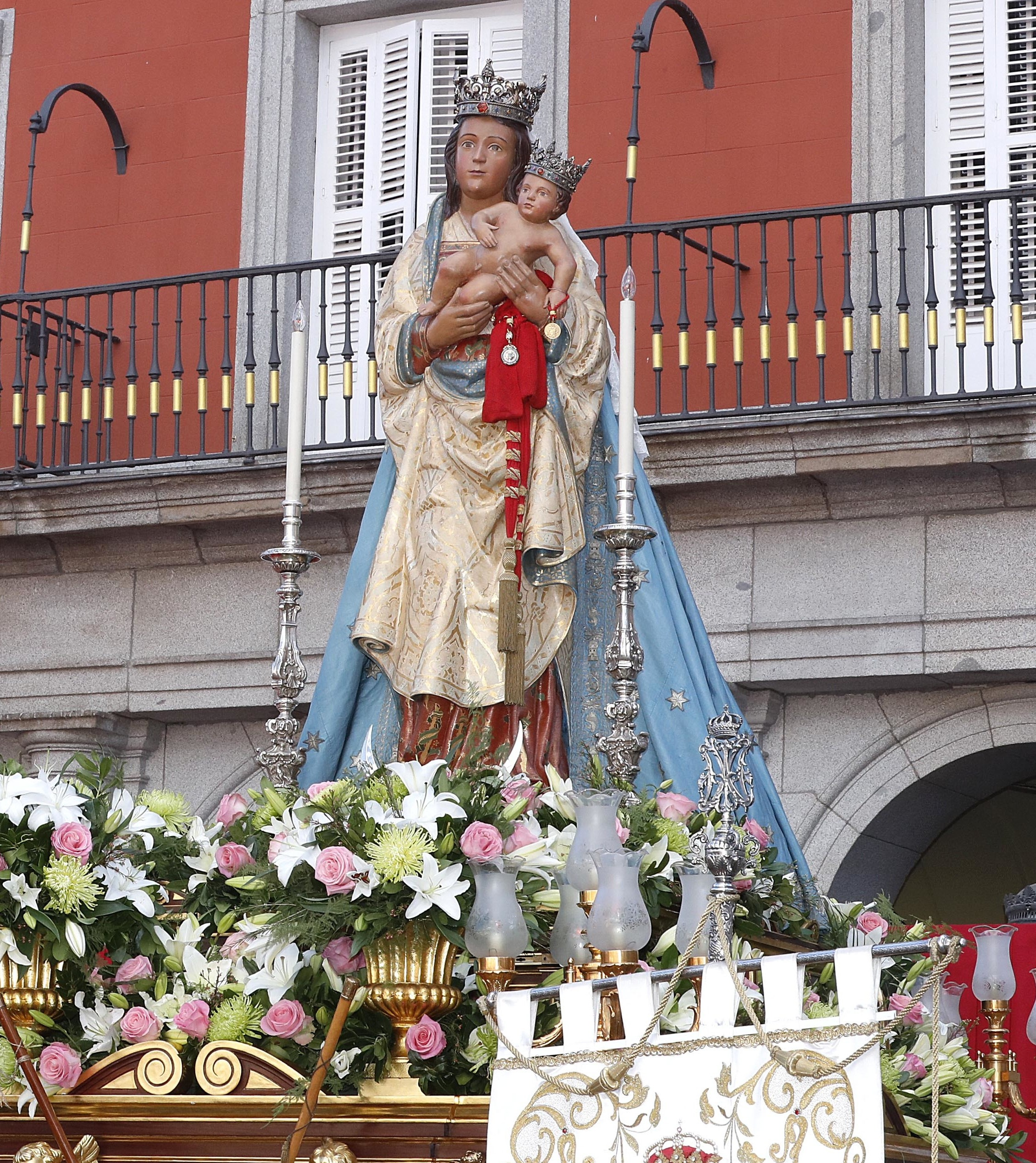 Misa solemne que el Arzobispo de Madrid, Carlos Osoro, ha oficiado en la Plaza Mayor en su honor de la Patrona de Madrid